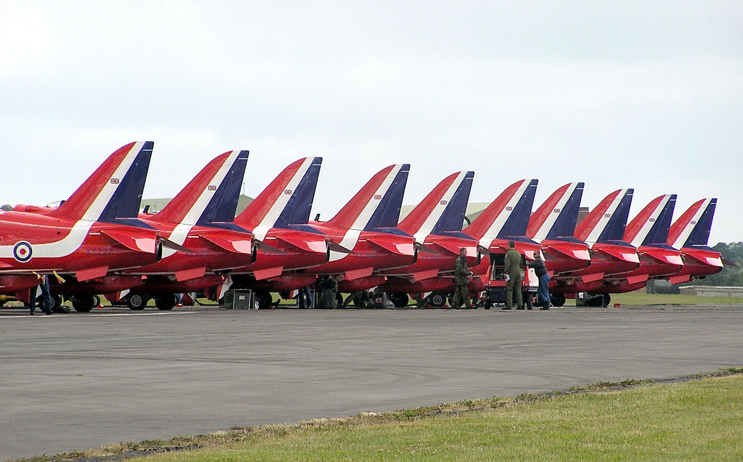 All ten Red Arrows Hawks line up (nine to fly, plus a spare) ready for the display at Kemble Airfield, Kemble, Gloucestershire, England. Taken by Adrian Pingstone in June 2004 and released to the public domain.